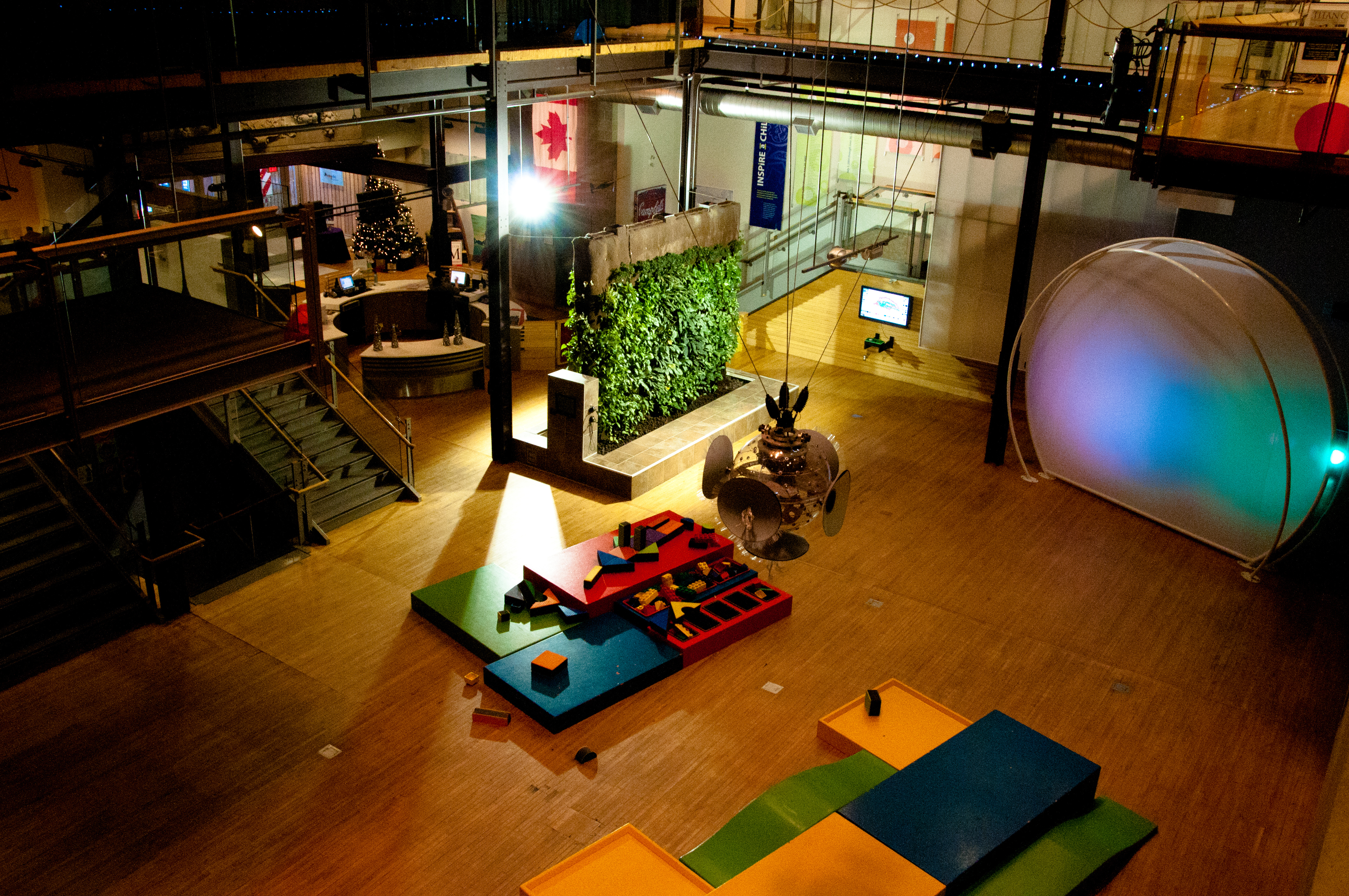 The children's museum in Kitchener, Ontario, Canada (The Museum).